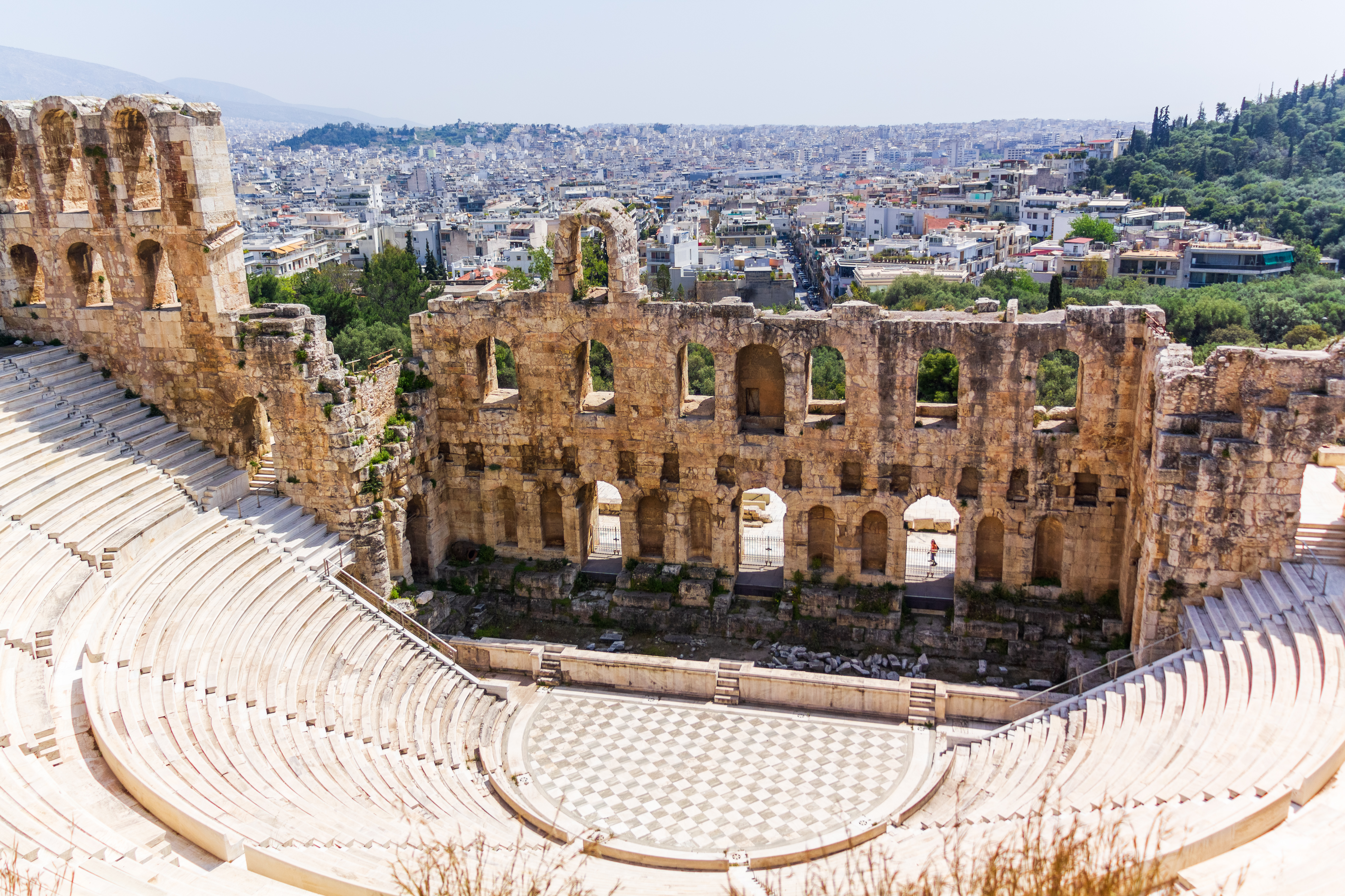 Odeon of Herodes Atticus, in the Acropolis of Athens, 2019